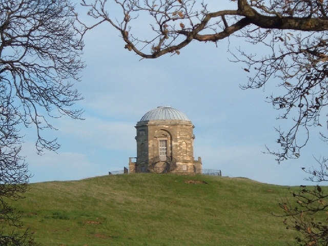 The Temple, Allerton Park. Taken from the A168